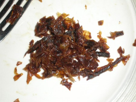 Тютюн за наргиле.